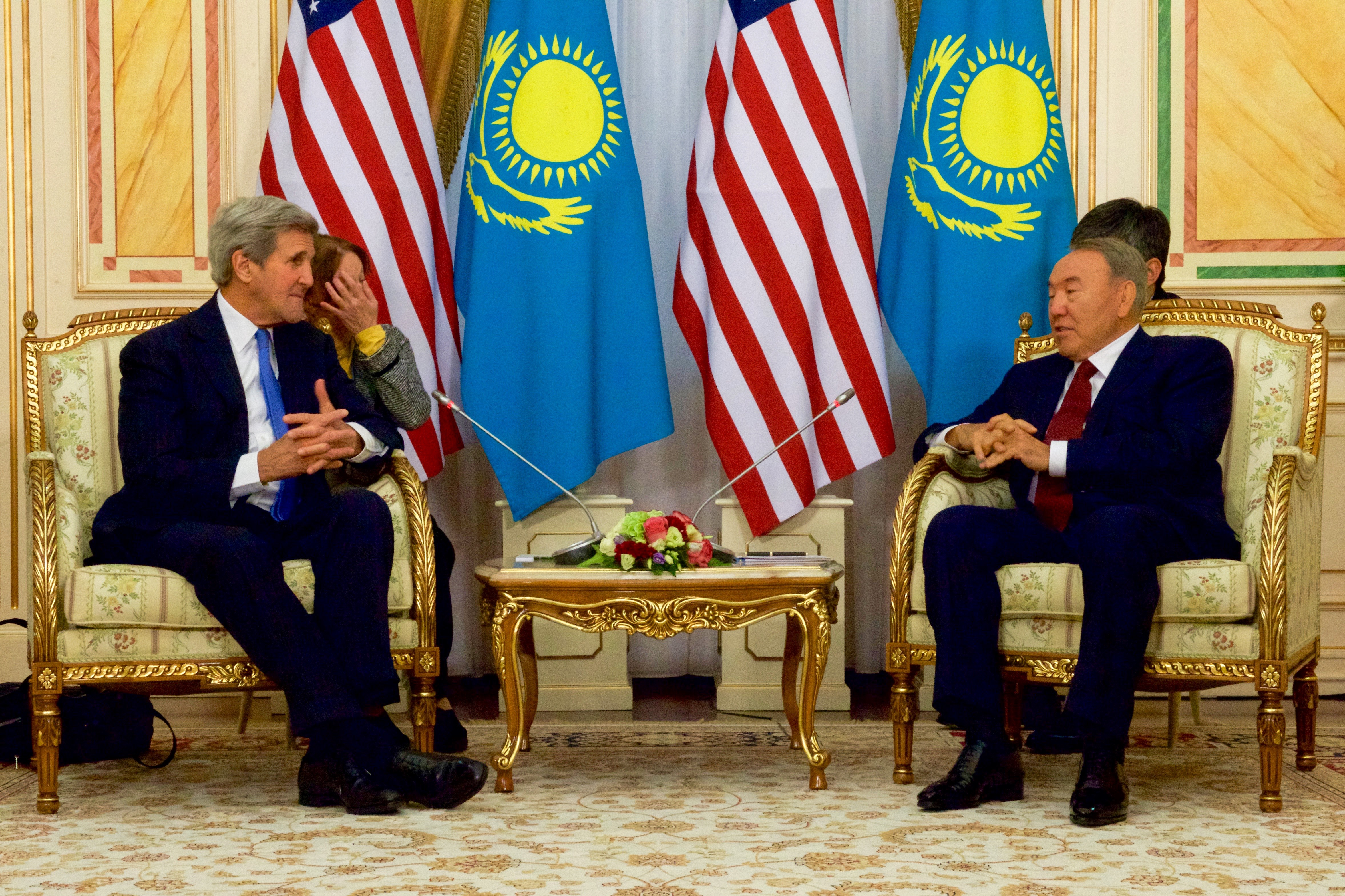 U.S. Secretary of State John Kerry speaks with President Nursultan Nazarbayev while meeting in the Gold Room at Ak Orda Presidential Palace in Nur-Sultan, Kazakhstan, November 2, 2015.